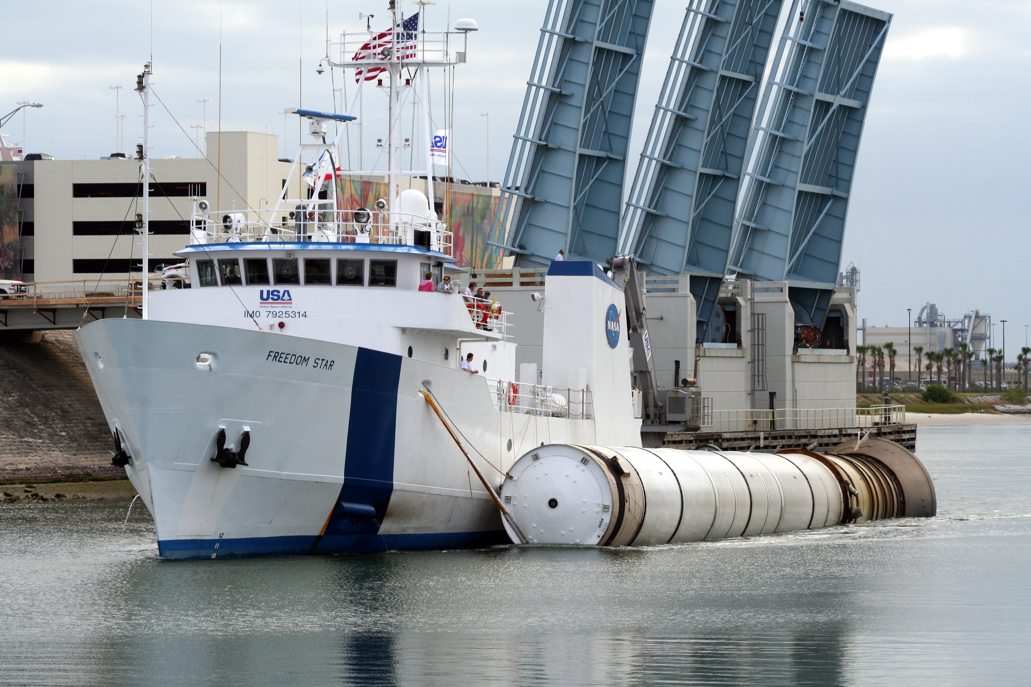 MV Freedom Star returns to Port Canaveral, Florida, with an SRB from STS-131.